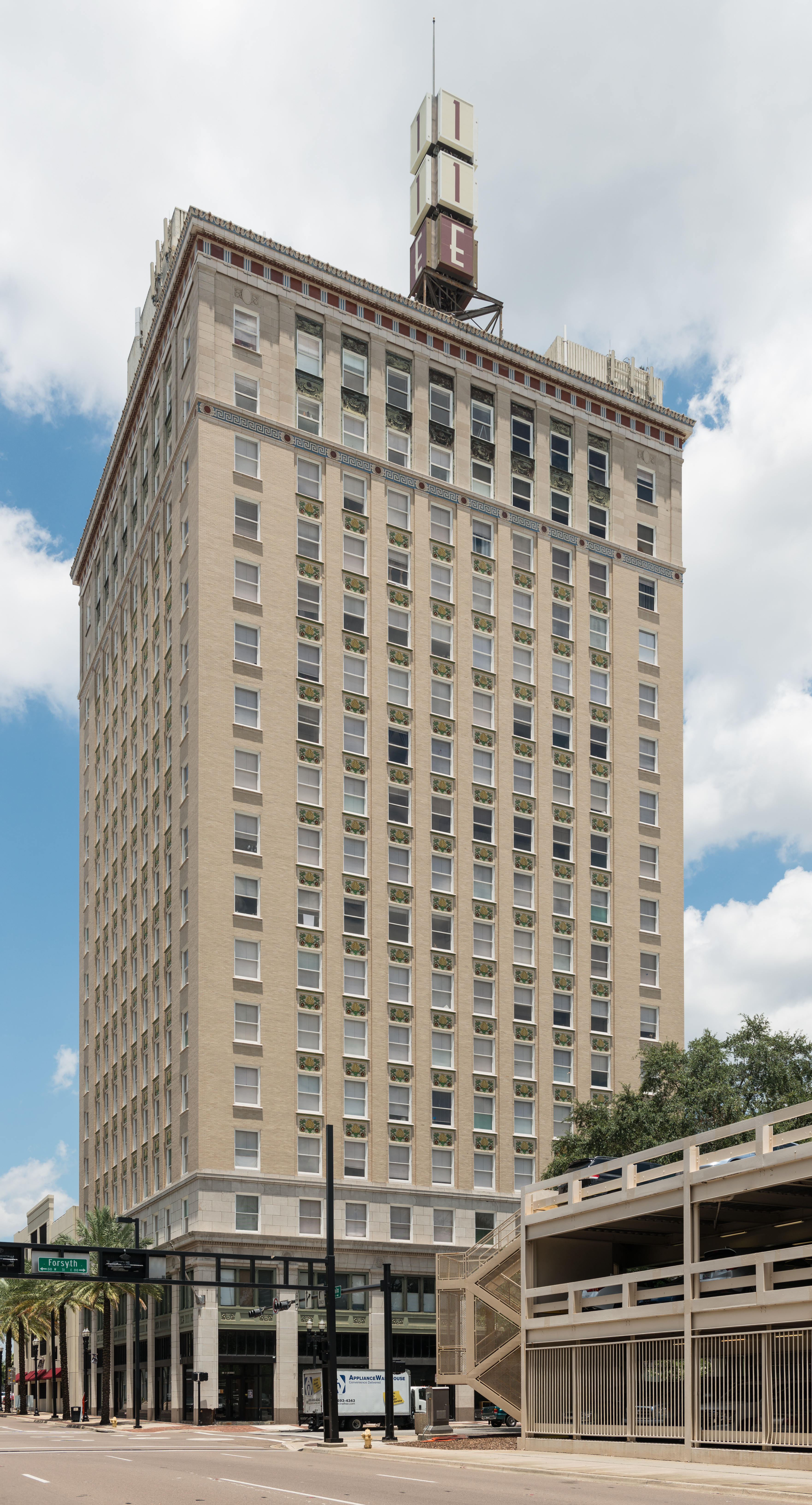 A southwest view of 11 East Forsyth, Jacksonville, Florida